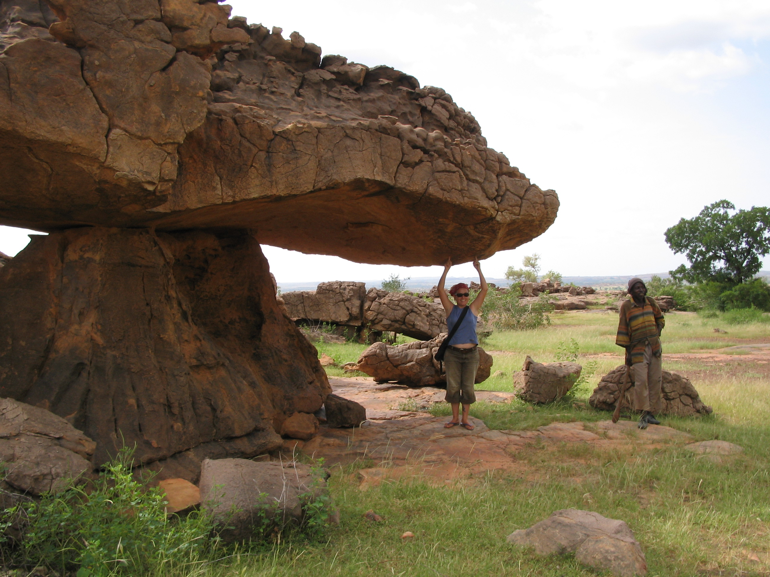 Bandiagara escarpment, Dogon country, Mali.